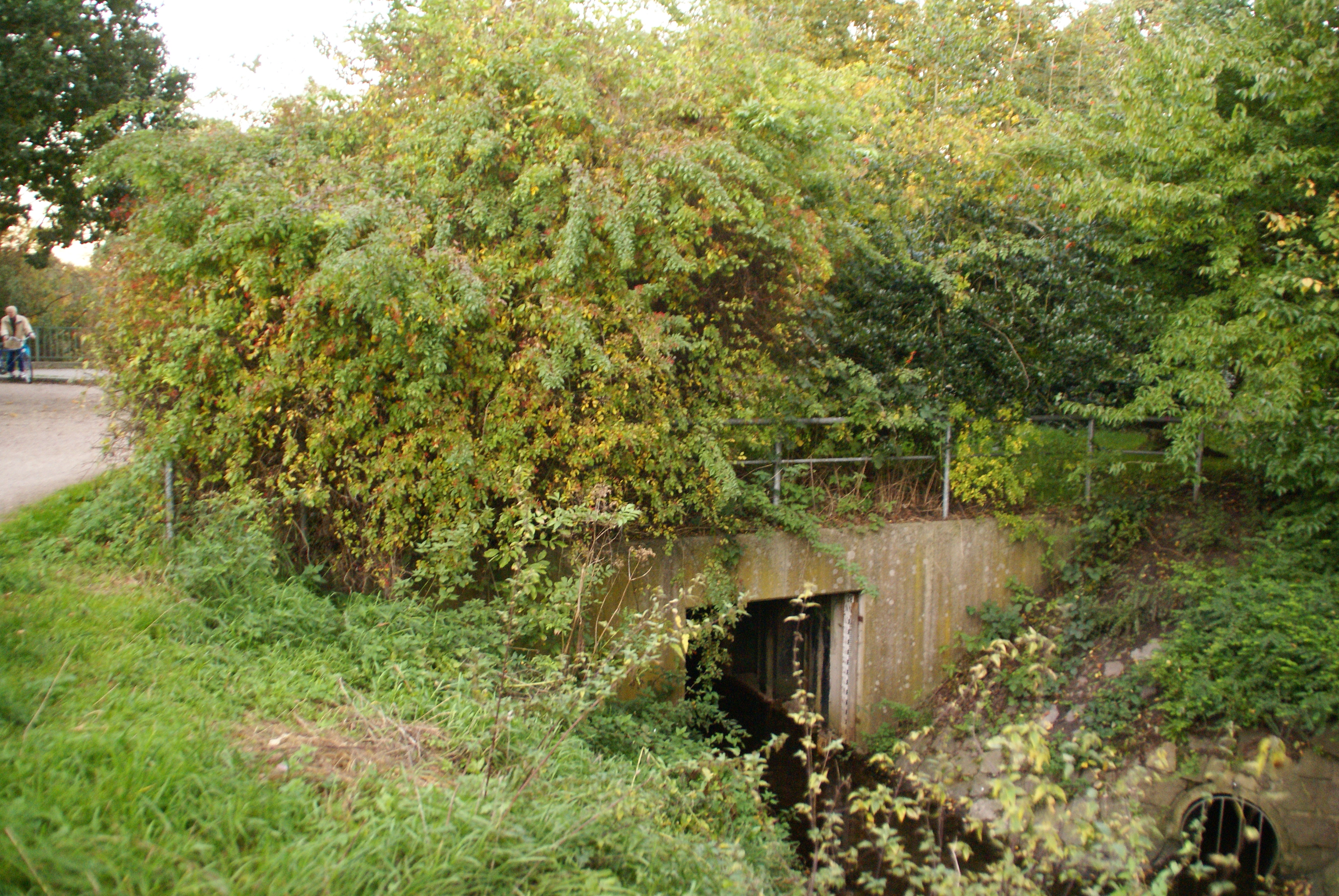 Hamburg (Germany): Spring of the lock of the river Seebek under the lock of the lake Bramfelder See